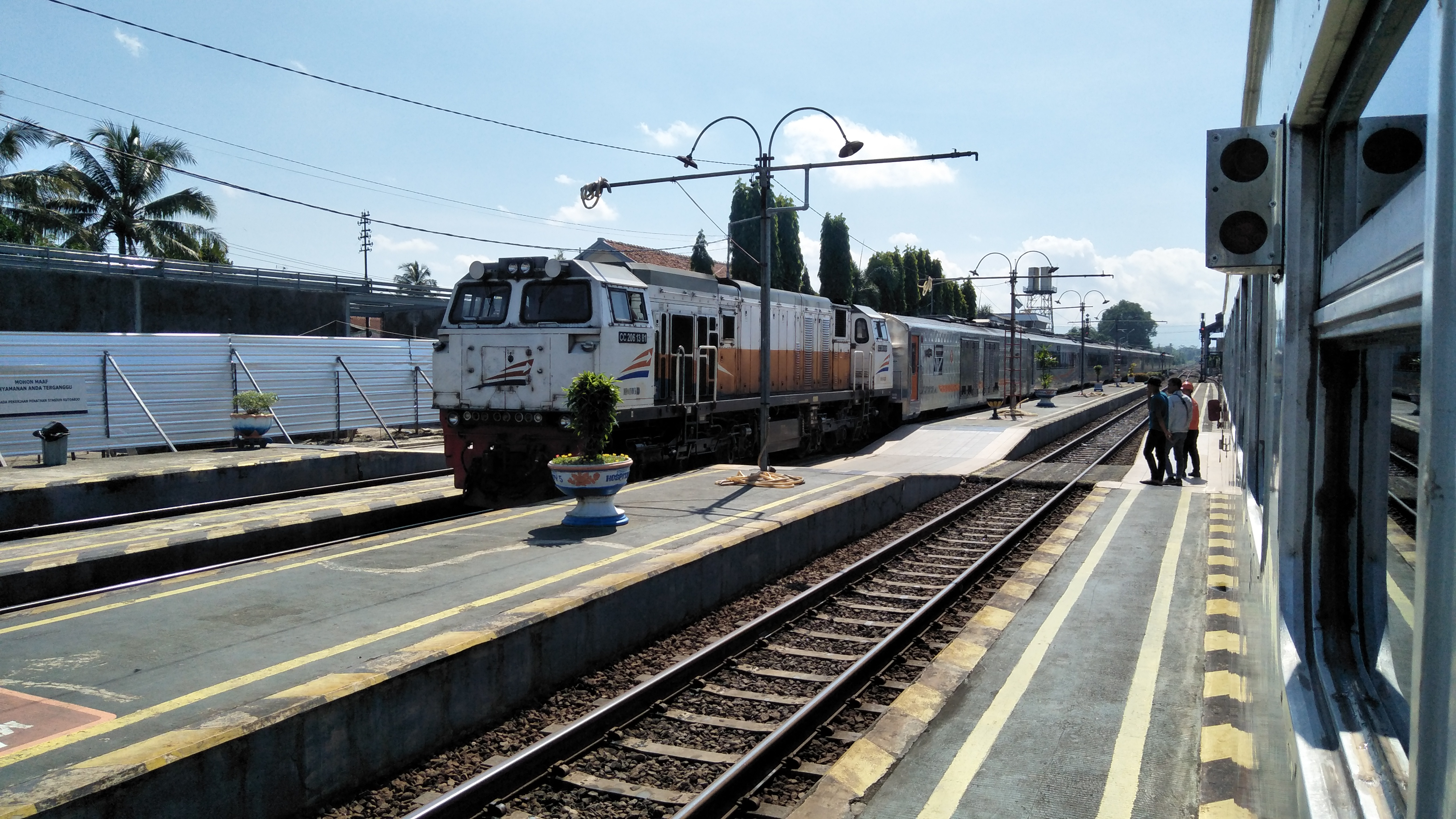 Lodaya train arrived at Kutoarjo Station